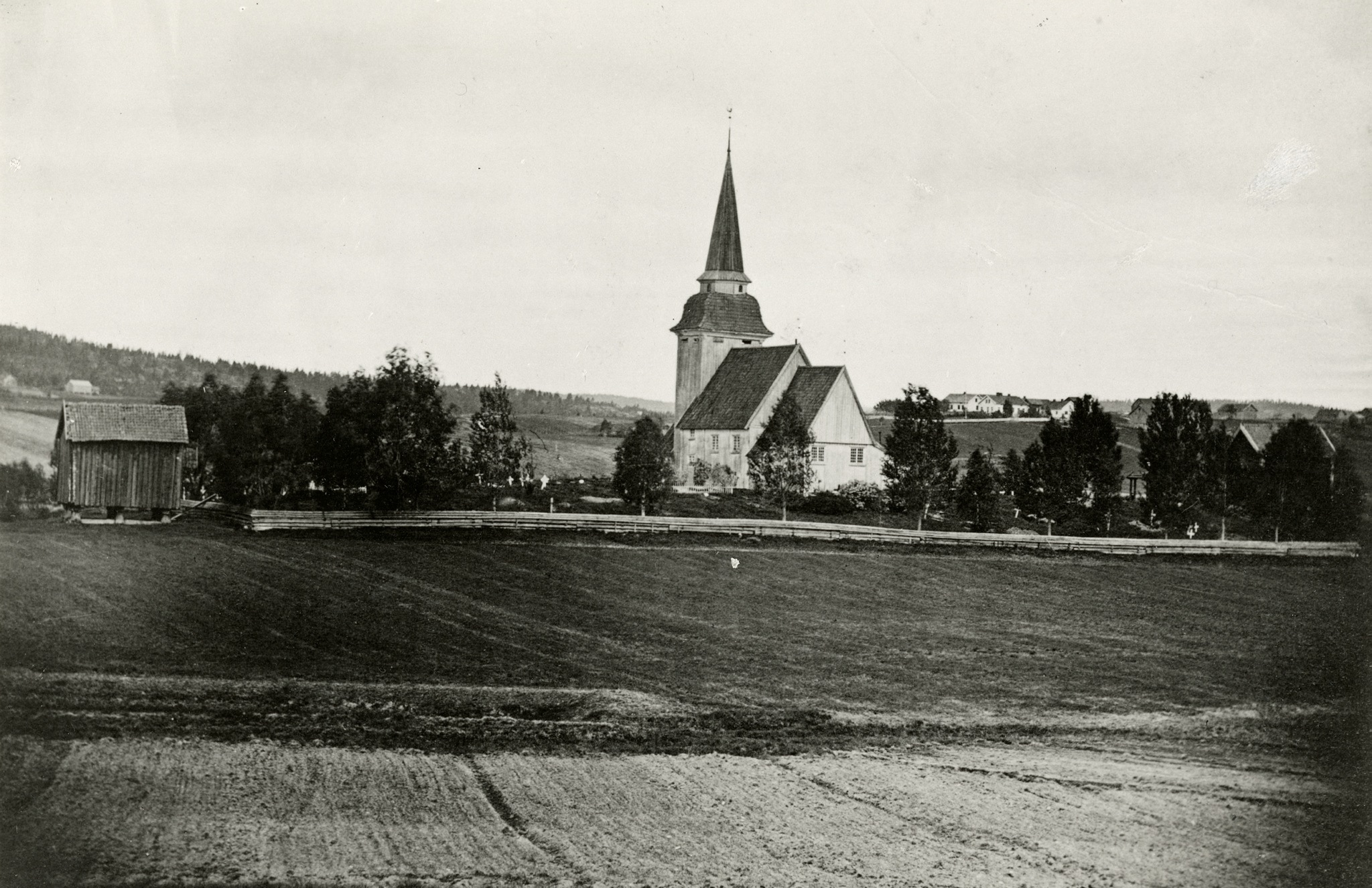 Løken gamle kirke (revet ca. 1883). Fra Kulturminnebilder.no.